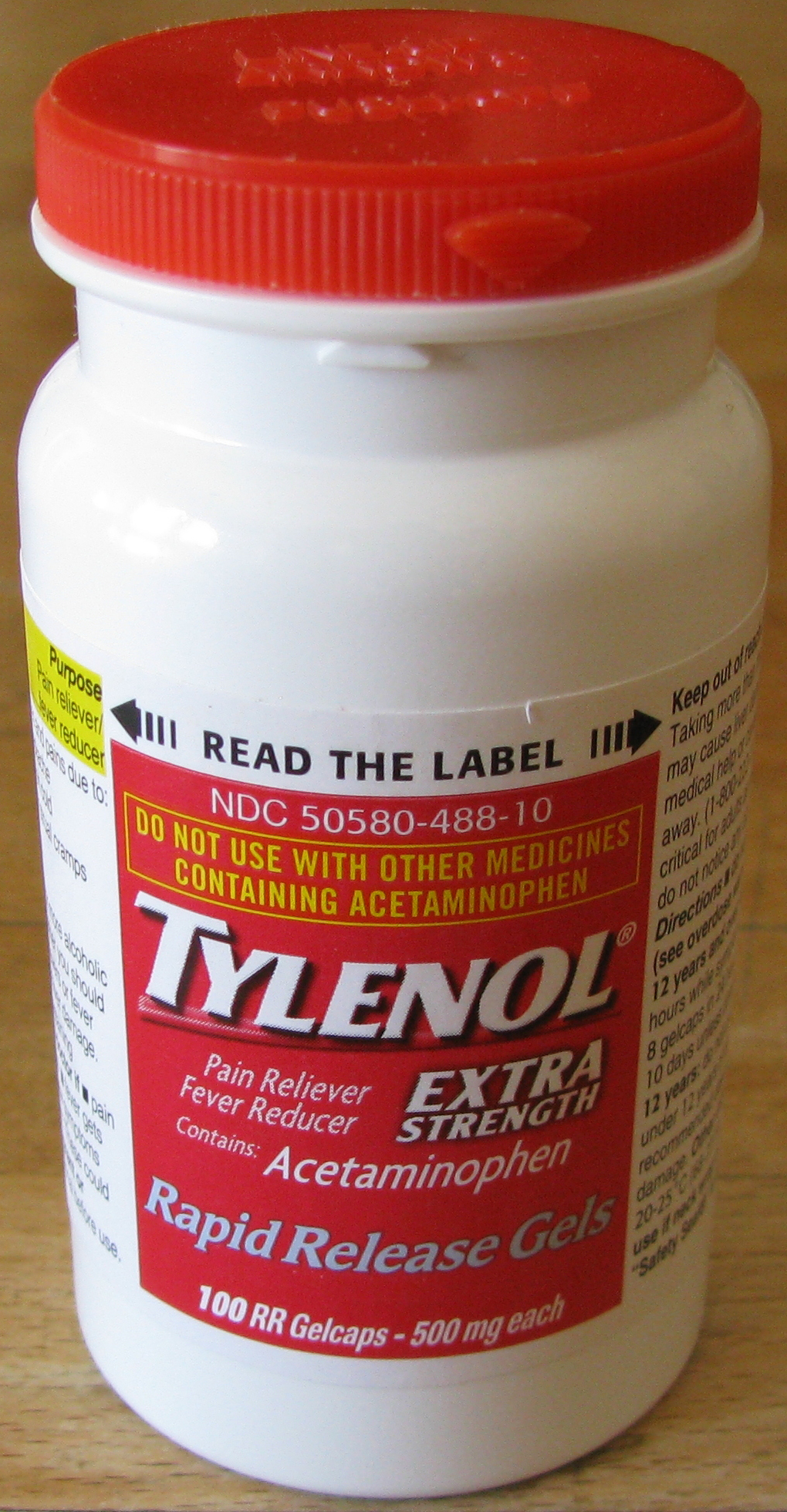 tylenol bottle closeup